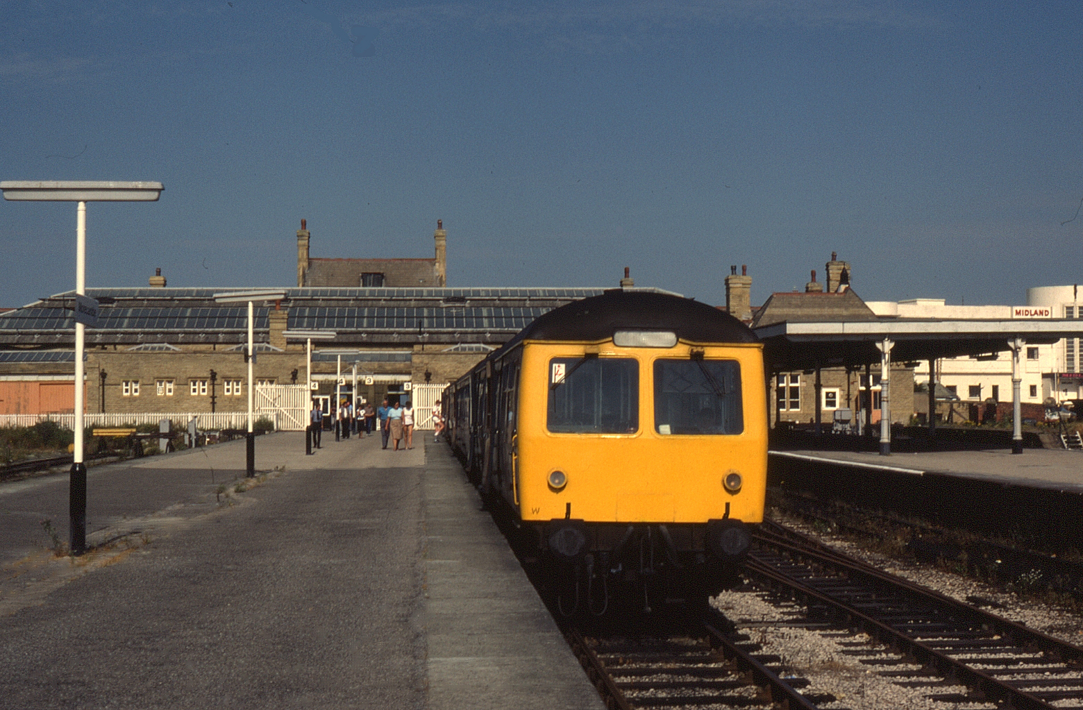 Class 105 Cravens built set with car no. 51259 closest to the camera. Taken on 24 July 1984 during a two week "All Line Rover" holiday covering most of the UK rail network. Train was the 10:10 Morecambe to Lancaster following a brief visit to this seaside resort terminus. For the record, the cars behind are 54434, 53965 and 54248 (nearest the station buildings).